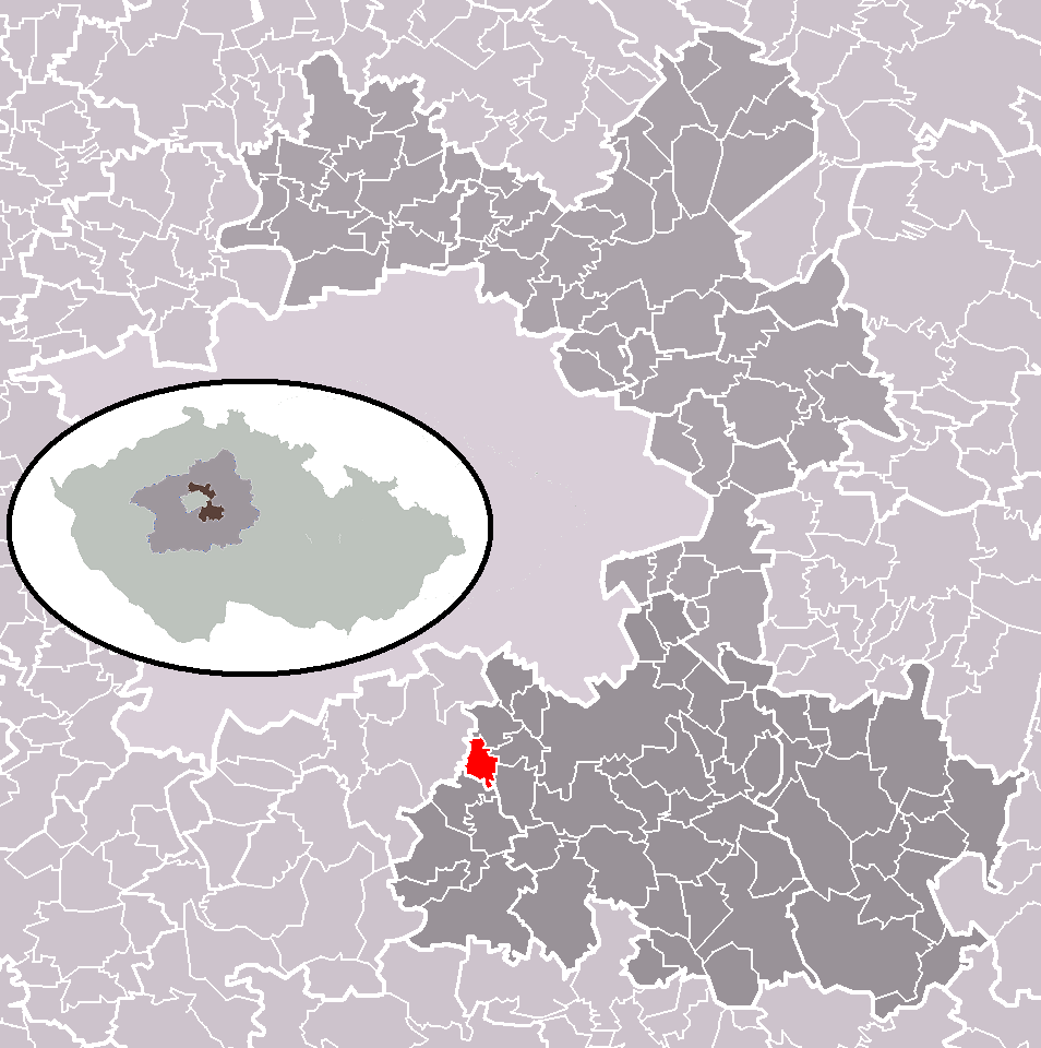 Location of Herink municipality within Prague-East District and administrative area of Říčany as a Municipality with Extended Competence.